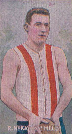 Cigarette card of Dick McCabe from the Sniders & Abrahams 1907 series